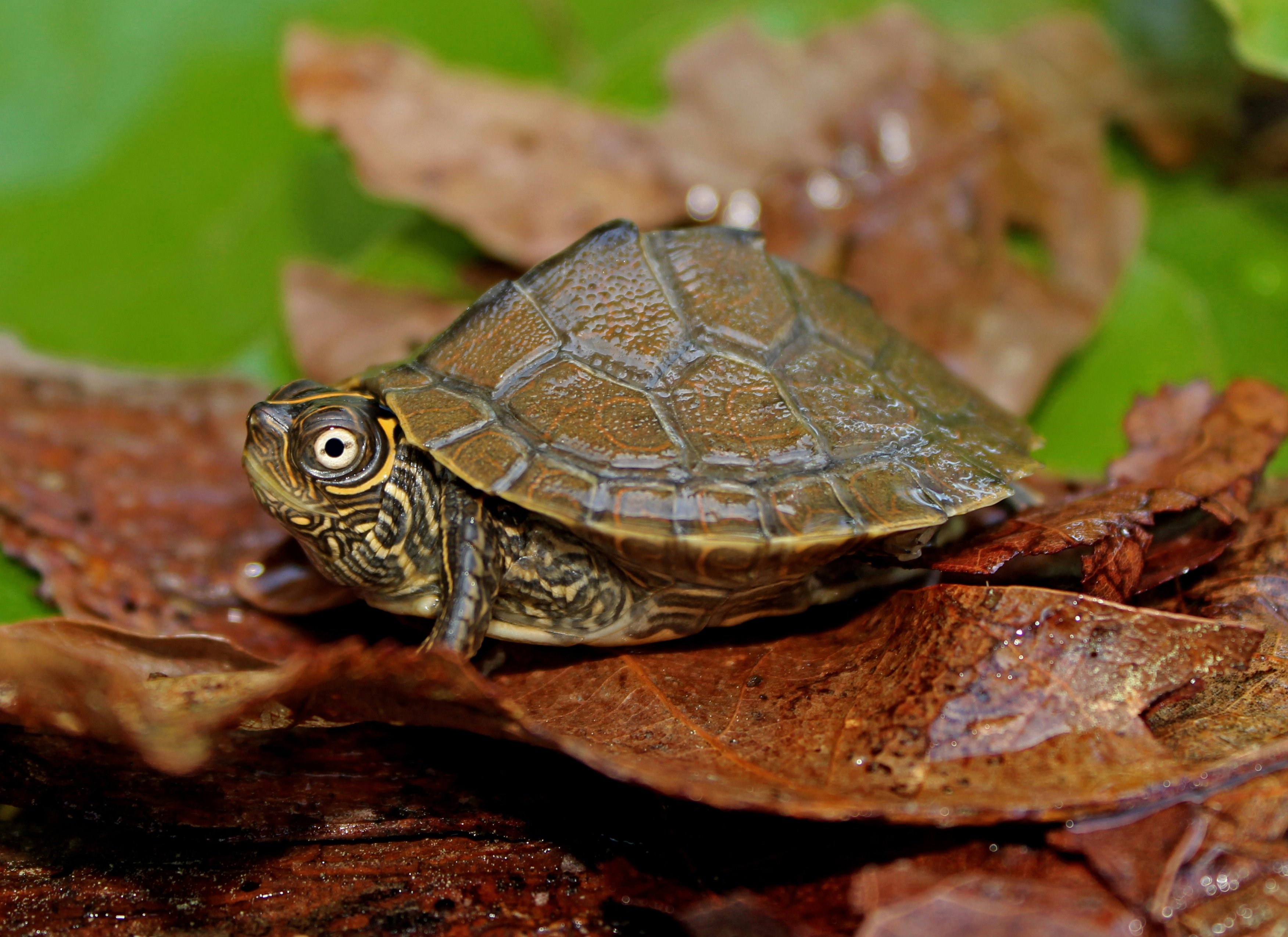 April 27th, 2016 High of 81 degrees Fahrenheit Pulaski County, Arkansas